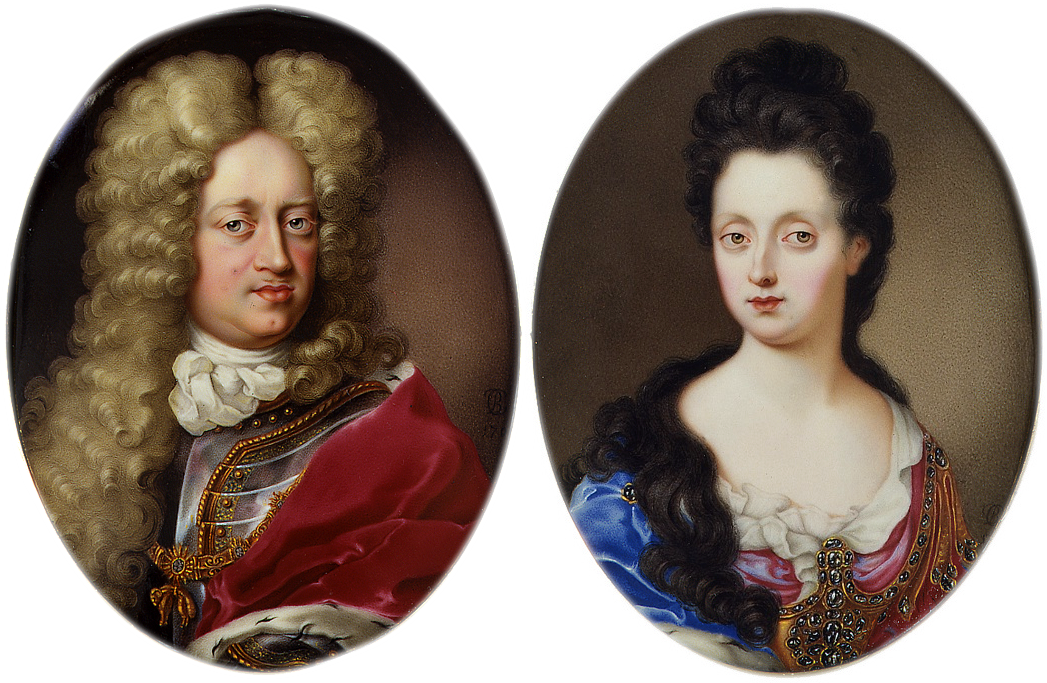 Portrait of Johann Wilhelm, Elector Palatine (1658-1716) and his wife Anna Maria Luisa de' Medici (1667-1743)